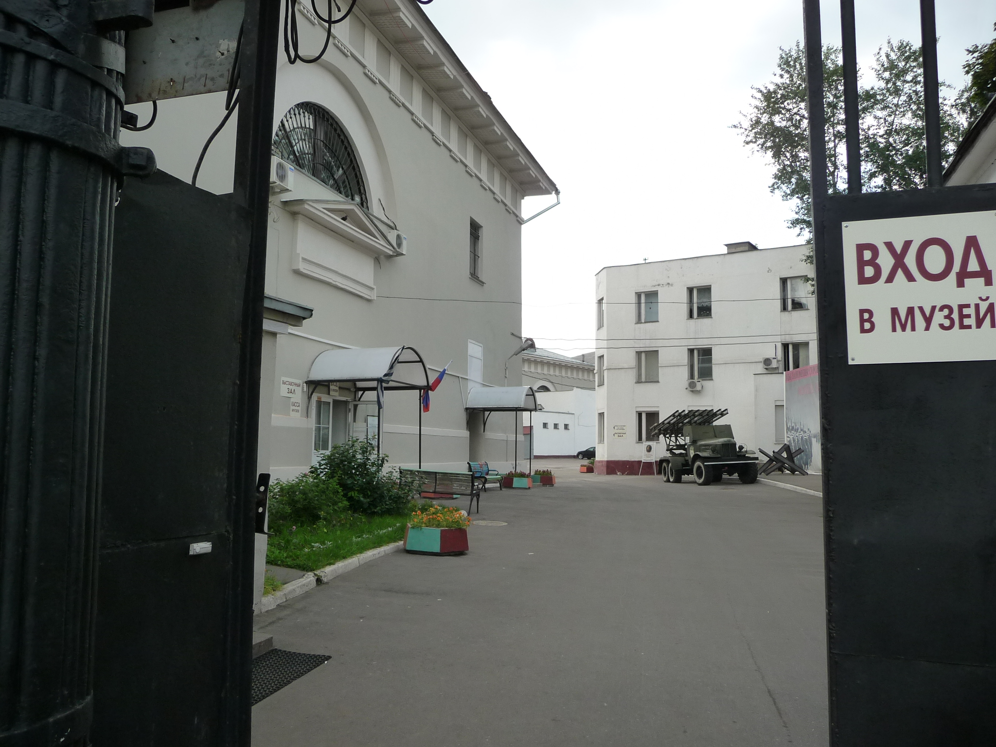 Zubovsky Boulevard, Moscow. The Food Warehouse buildings (1832-1835) designed by V. P. Stasov and F. M. Shestakov.